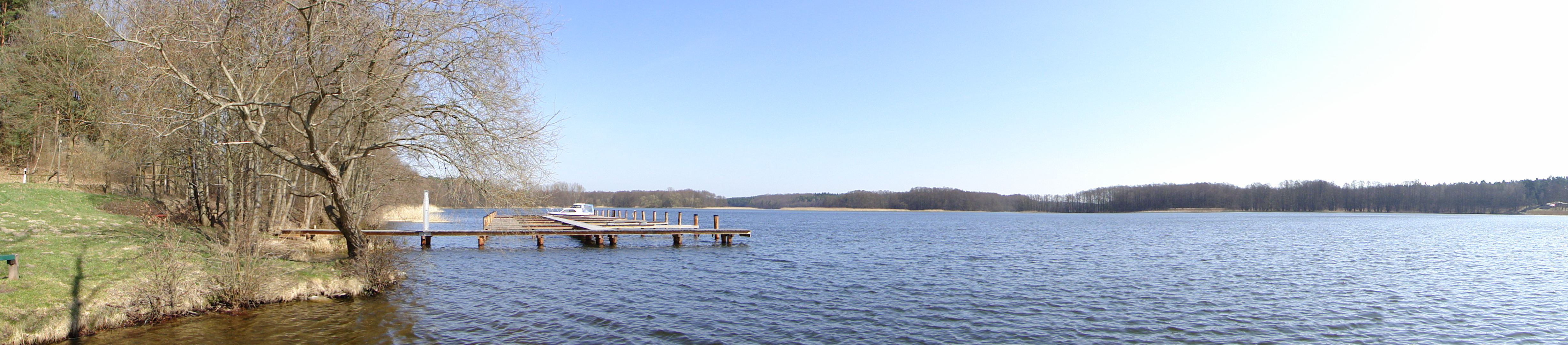 Lake Zethner See in Schwarz, disctrict Müritz, Mecklenburg-Vorpommern, Germany